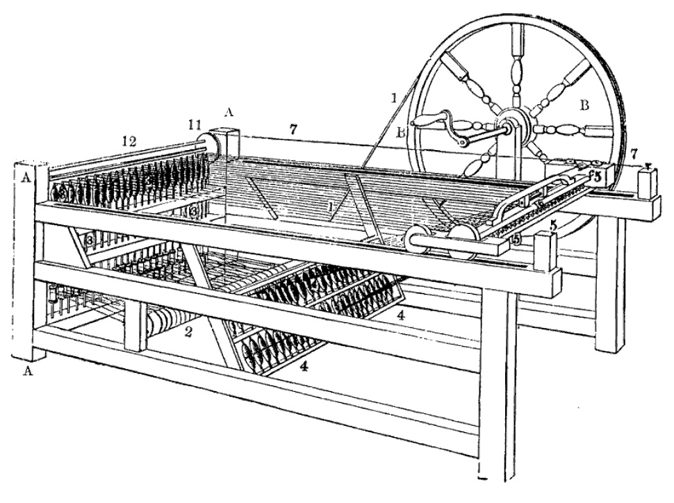 Havgreaves Spinning Jenny in its most improved form